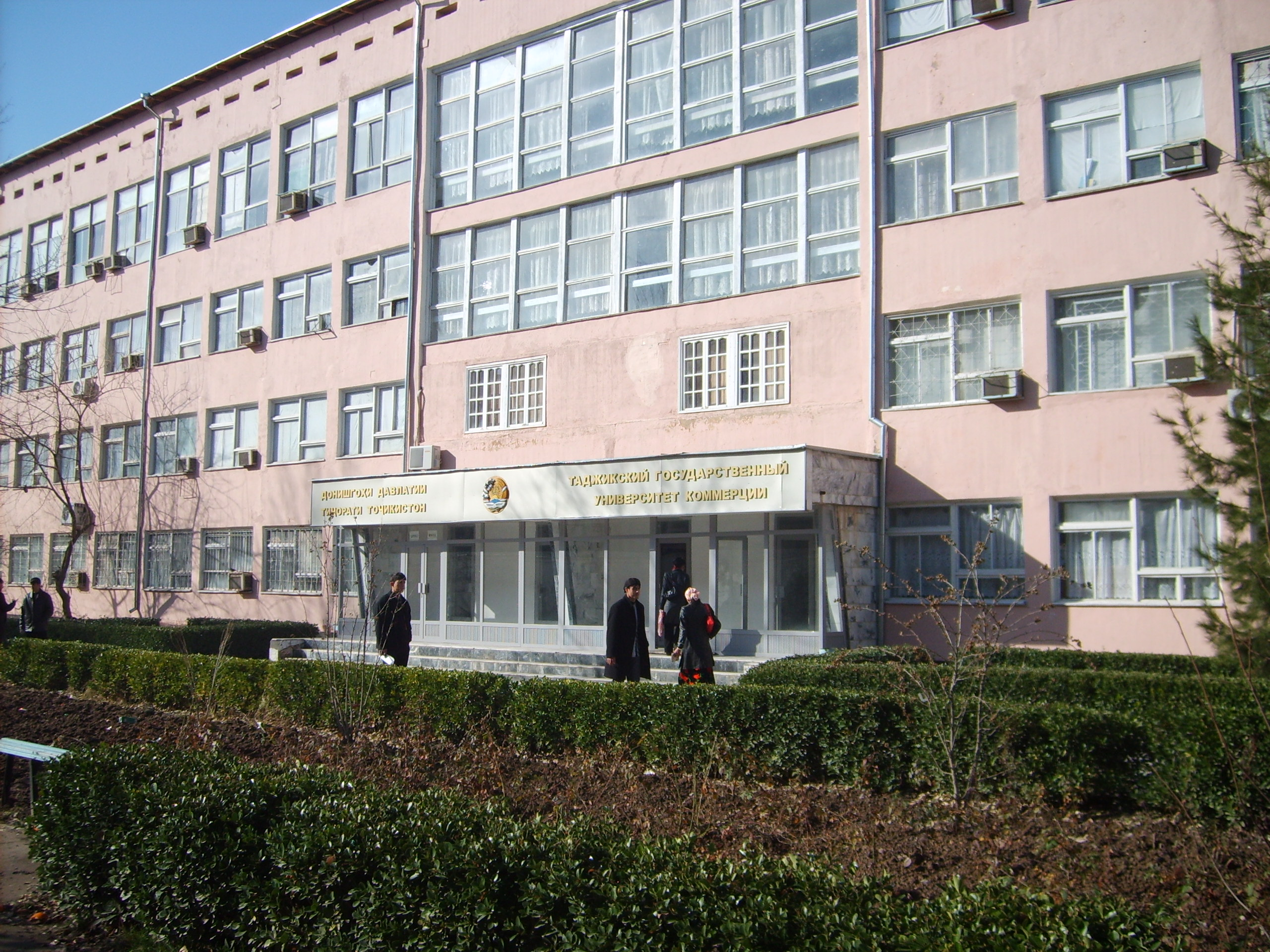 State Economic University of Tajikistan